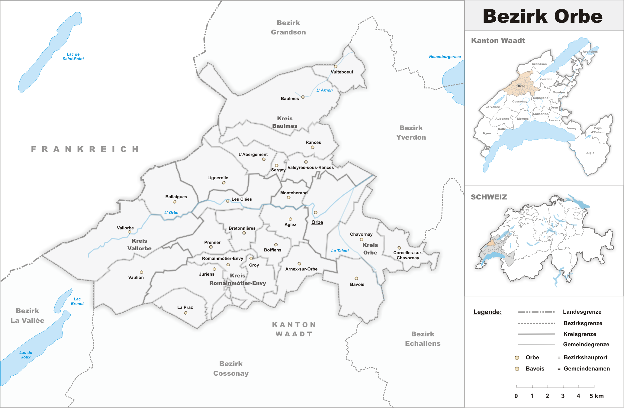 Municipalities in the district of Orbe